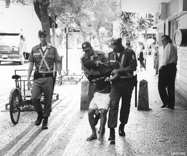 Arrest in the streets of Copacabana, Rio de Janeiro, Brazil